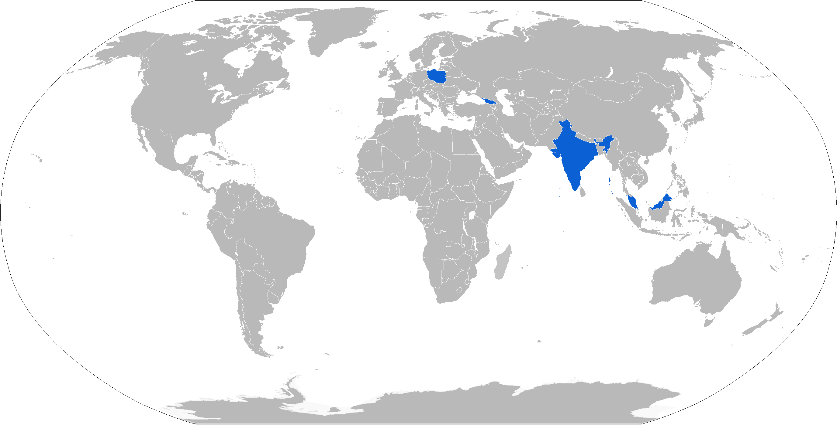 Map of PT-91 operators in blue